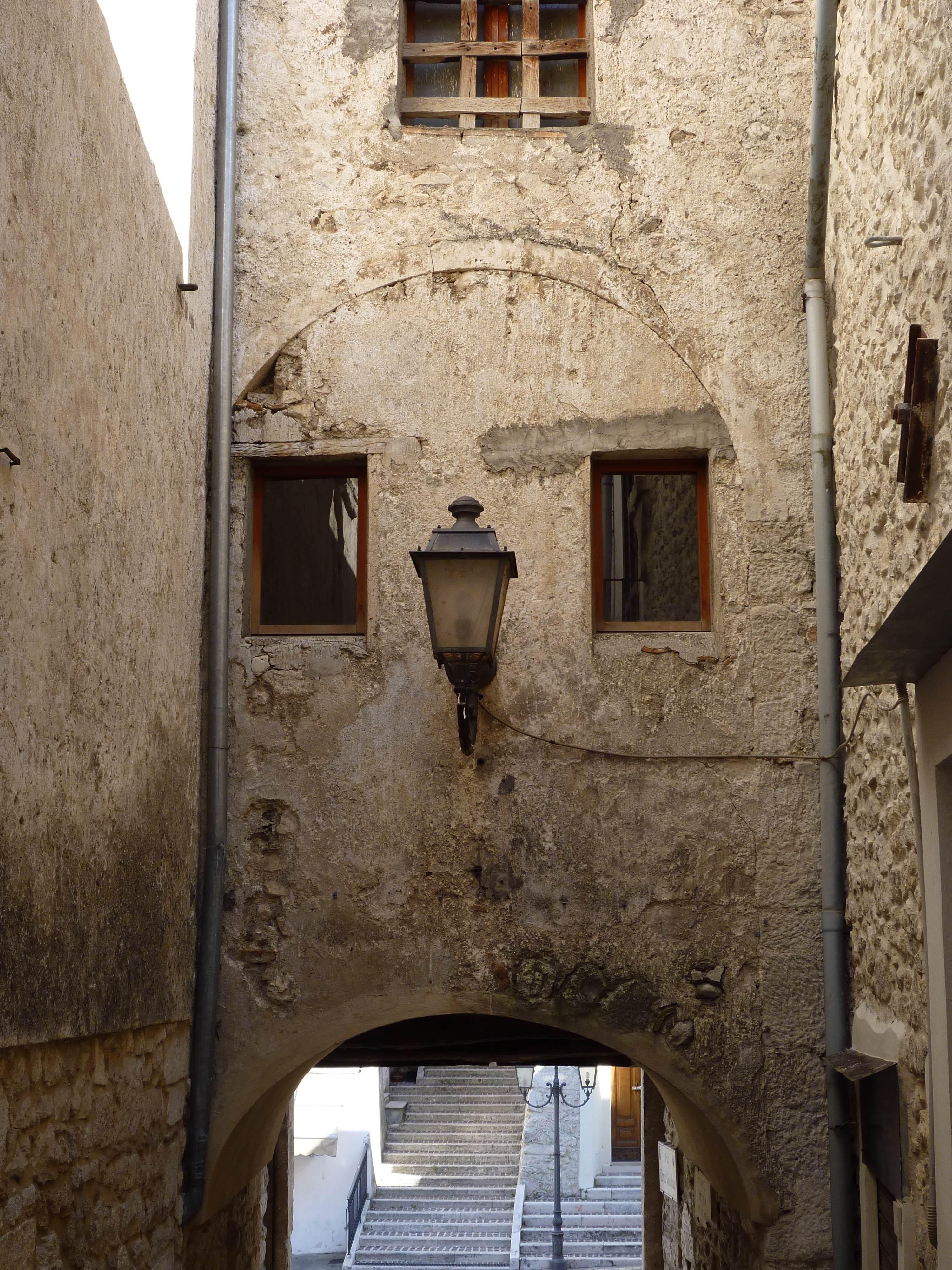 A glimpse of the village of Terravecchia, Fara San Martino, province of Chieti, Abruzzo, Italy.